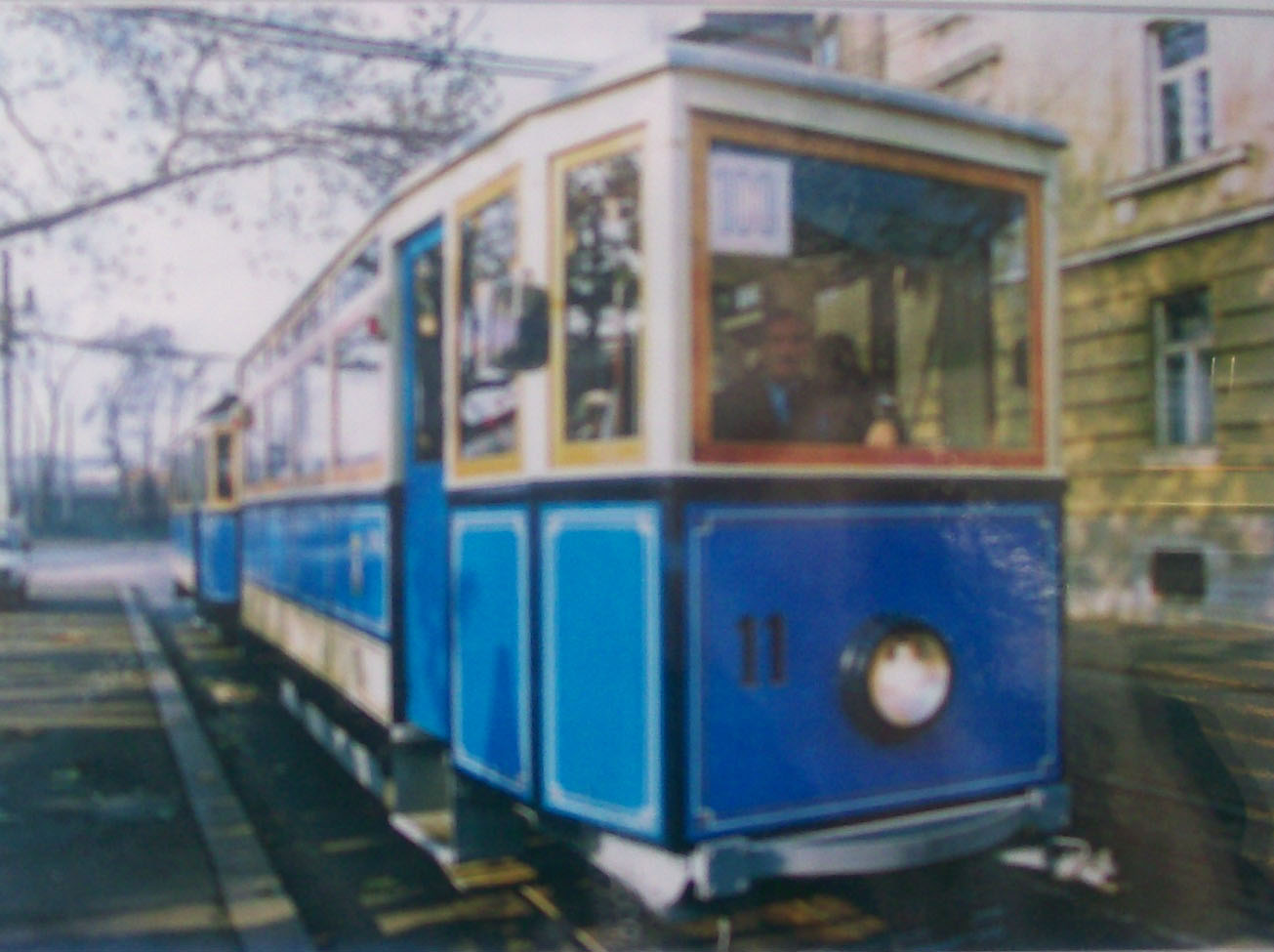 Old tram M-24 in Zagreb (1924)